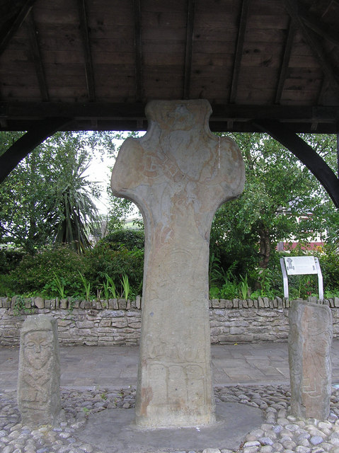 Carndonagh Cross. Chris Gunns has an excellent description here 400551